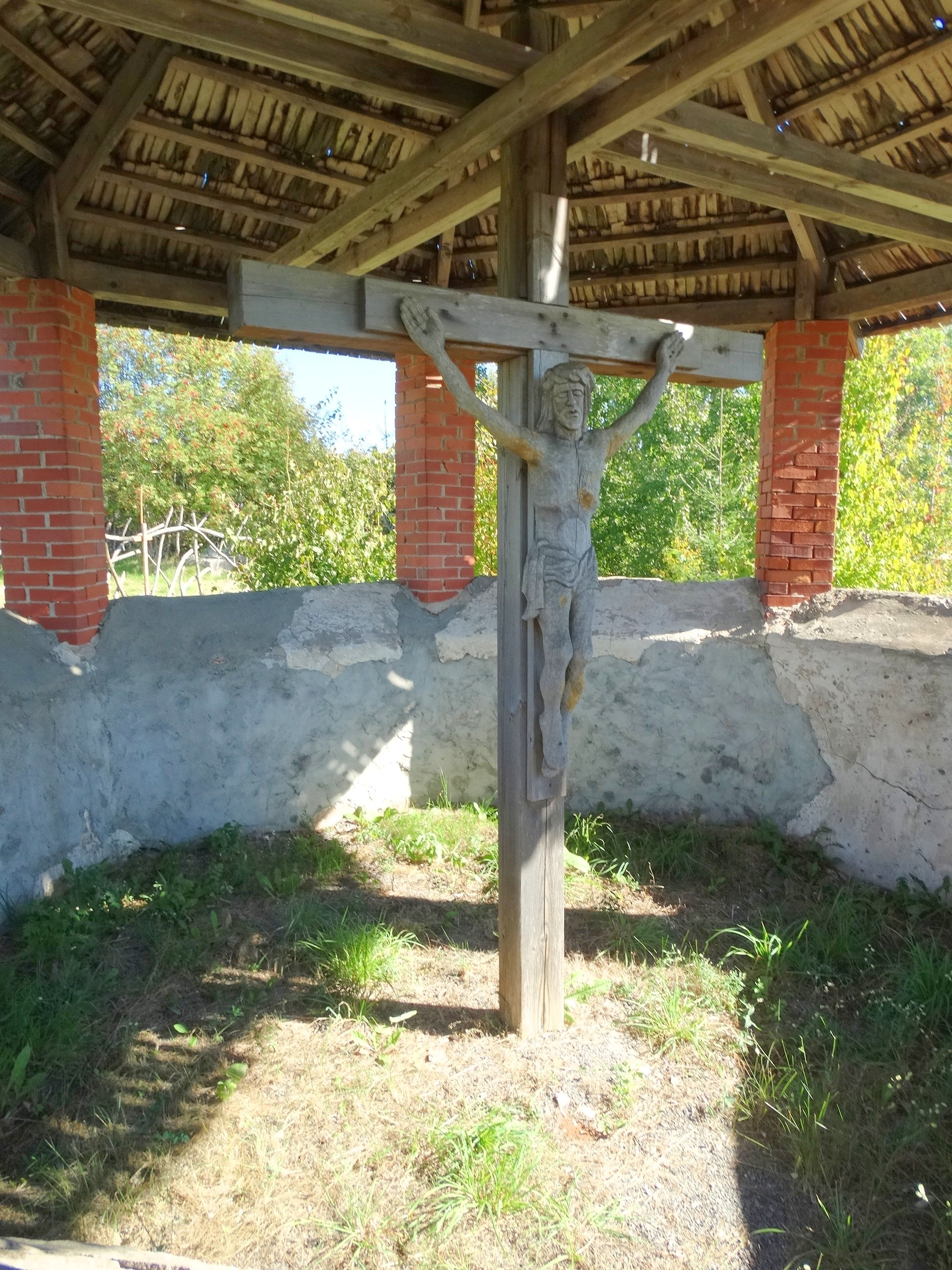 Chapel in Dūkšteliai, Ignalina District, Lithuania